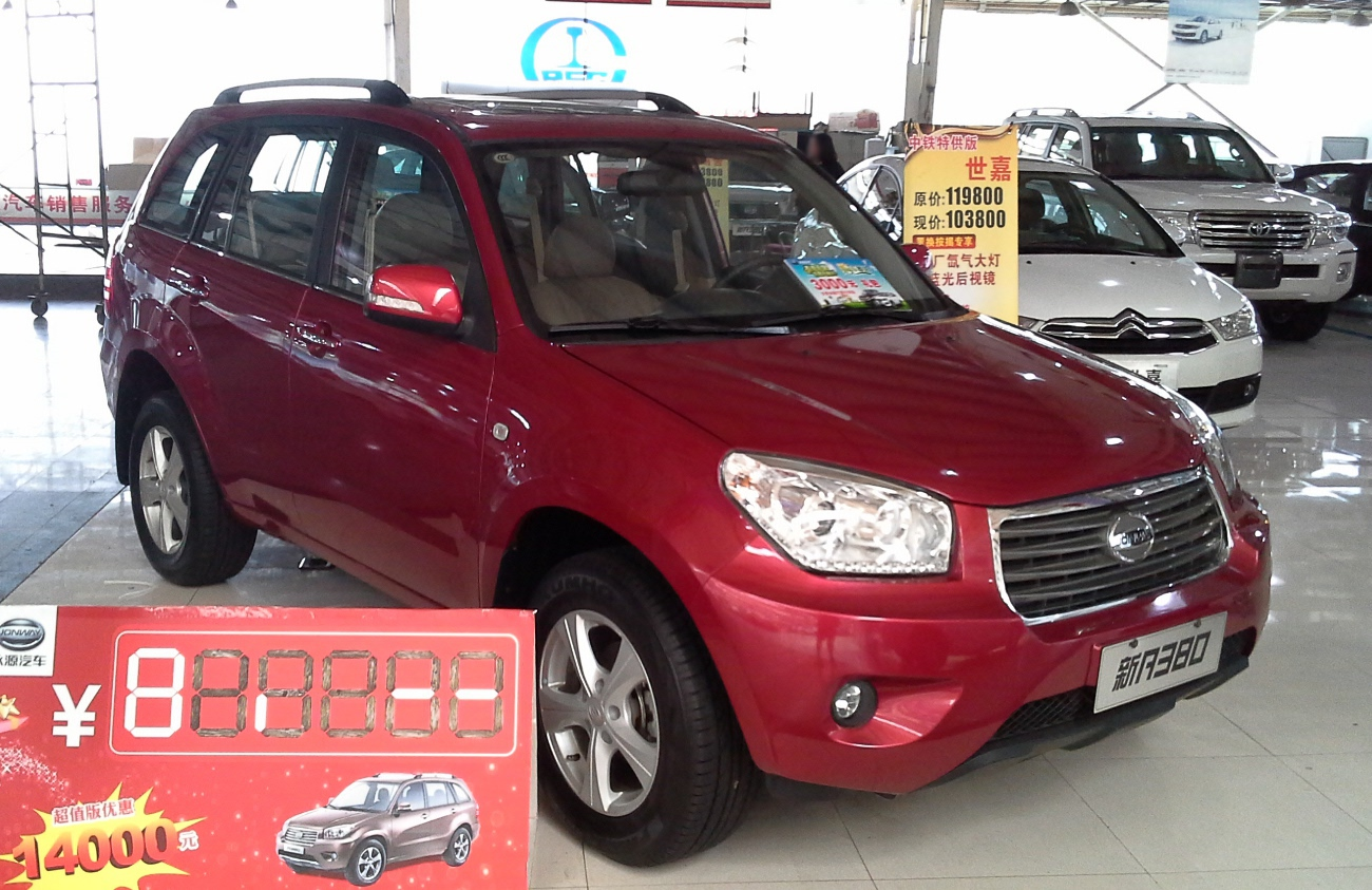 Jonway A380 facelift photographed in Chengdu, Sichuan province, China.